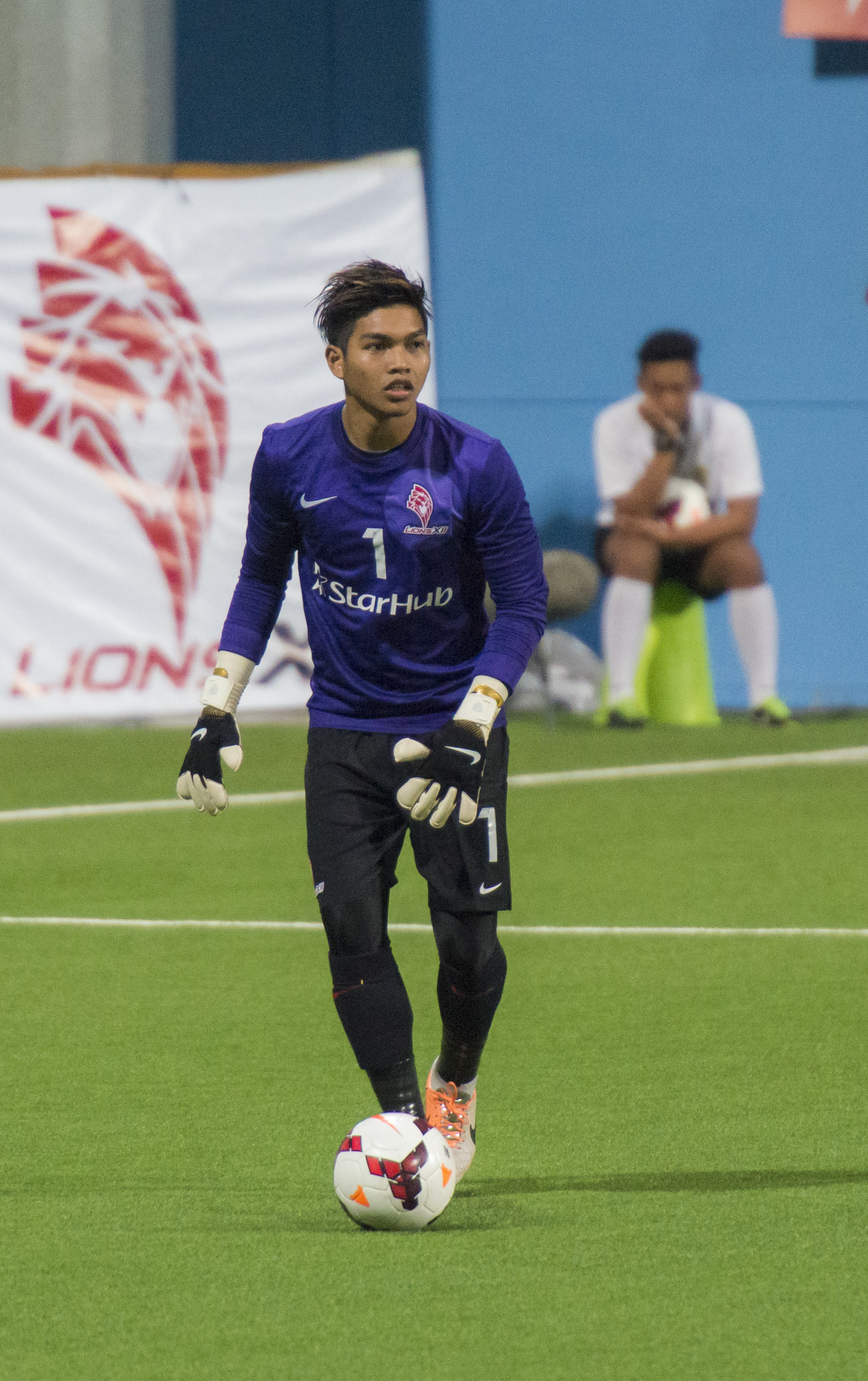 izwan mahdbud msl 2014 lionsxii kelantan fa